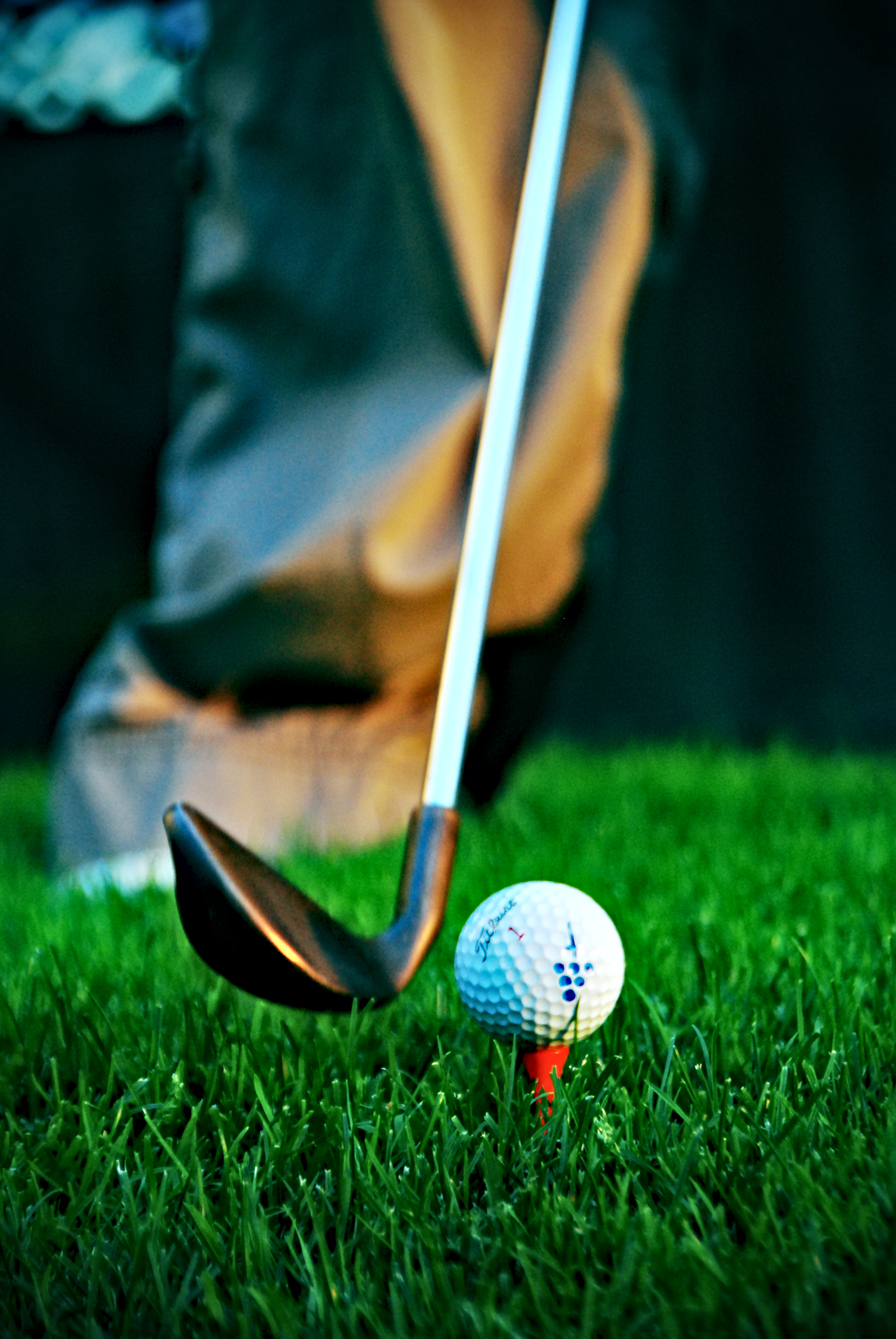 A marked ball on a tee at a golf course in Richmond, British Columbia, CA